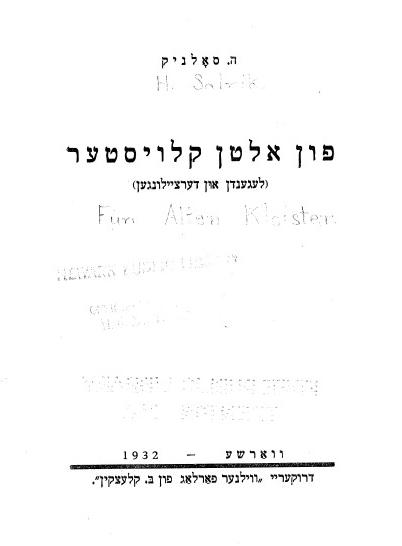 Title book "Von Dem Alten Kloster" authorships of Herman Solnik, given out in 1932 through Printing-house "Vid. Vilenskie" B. Kleckina in Vilnius.